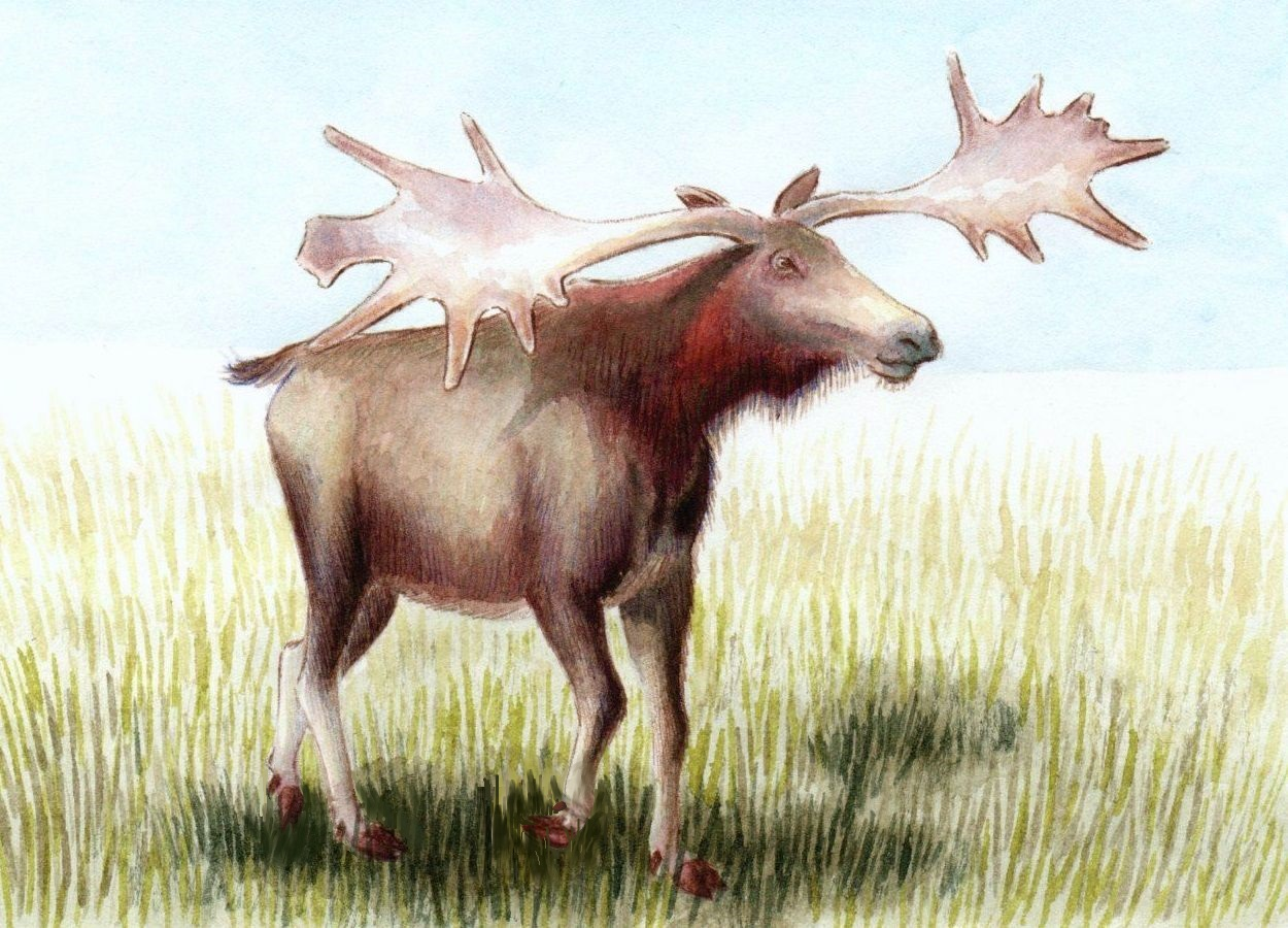 A recreation of the extinct mammal Libralces